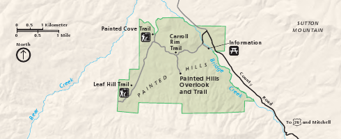 Map of the Painted Hills Unit of the John Day Fossil Beds National Monument in north-central Oregon, United States.